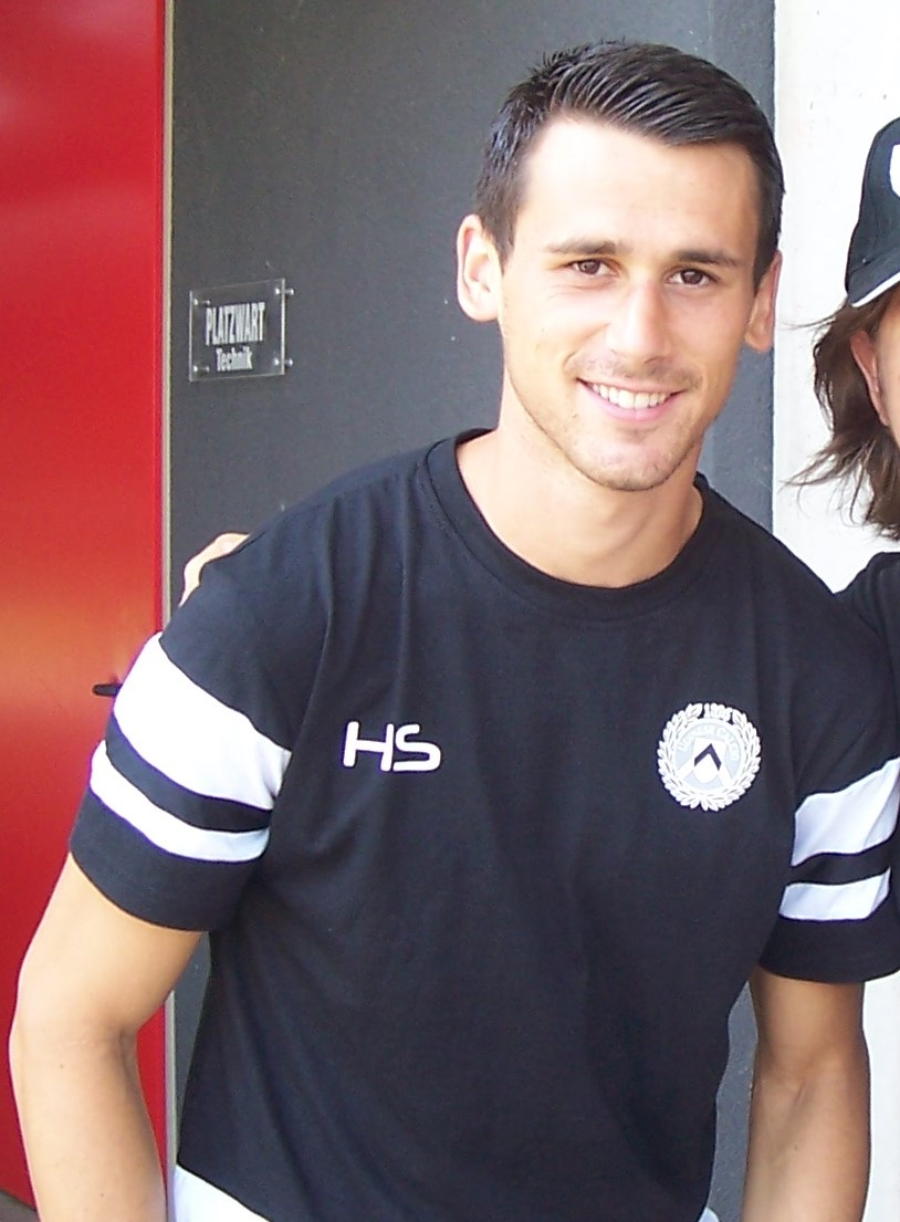 Lasagna during 2017 preseason by Udinese